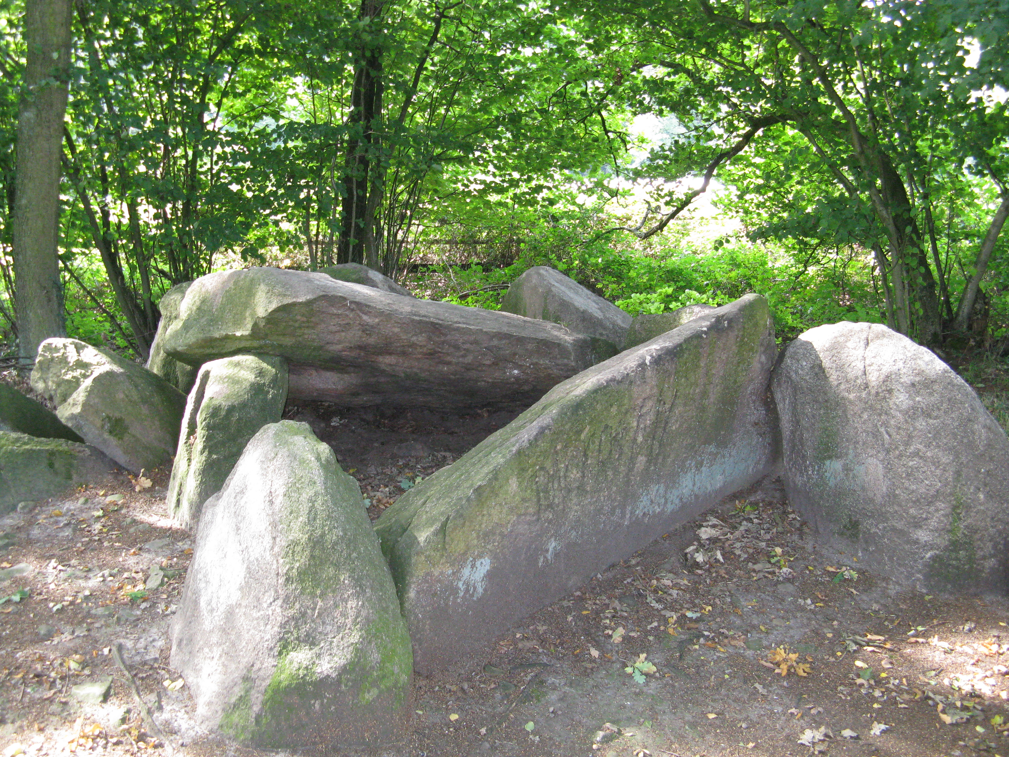 Belm: megalithic chambered tomb "devil's backing oven"